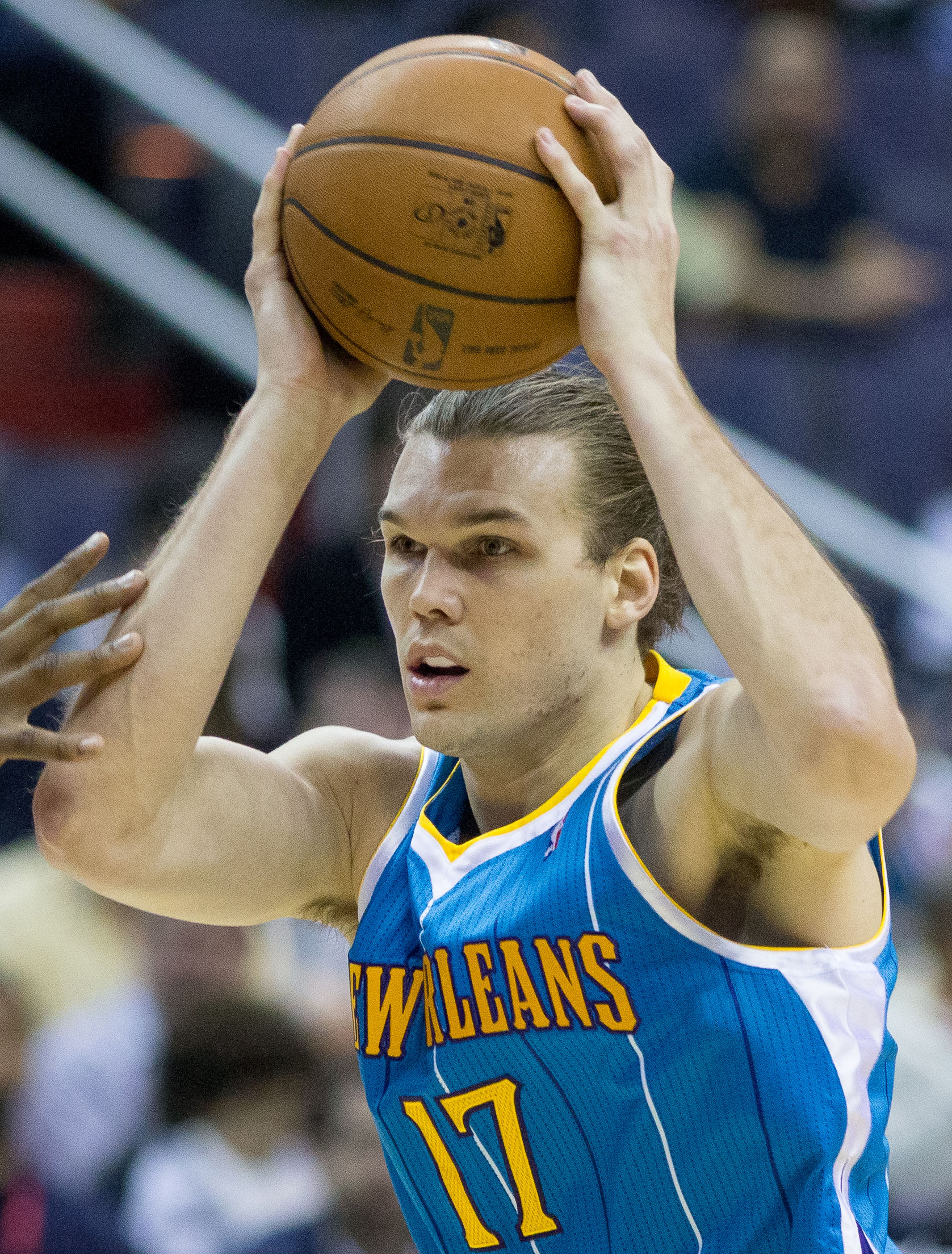 Lou Amundson